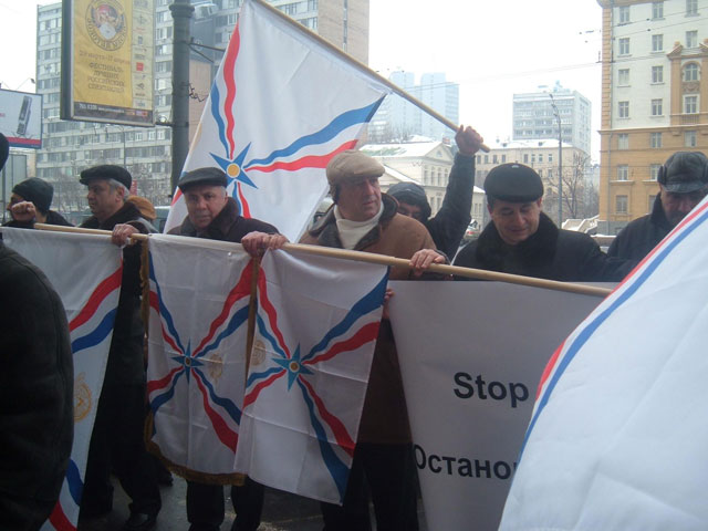 Assyrians in Russia protesting the latest Church bombings in February of 2006